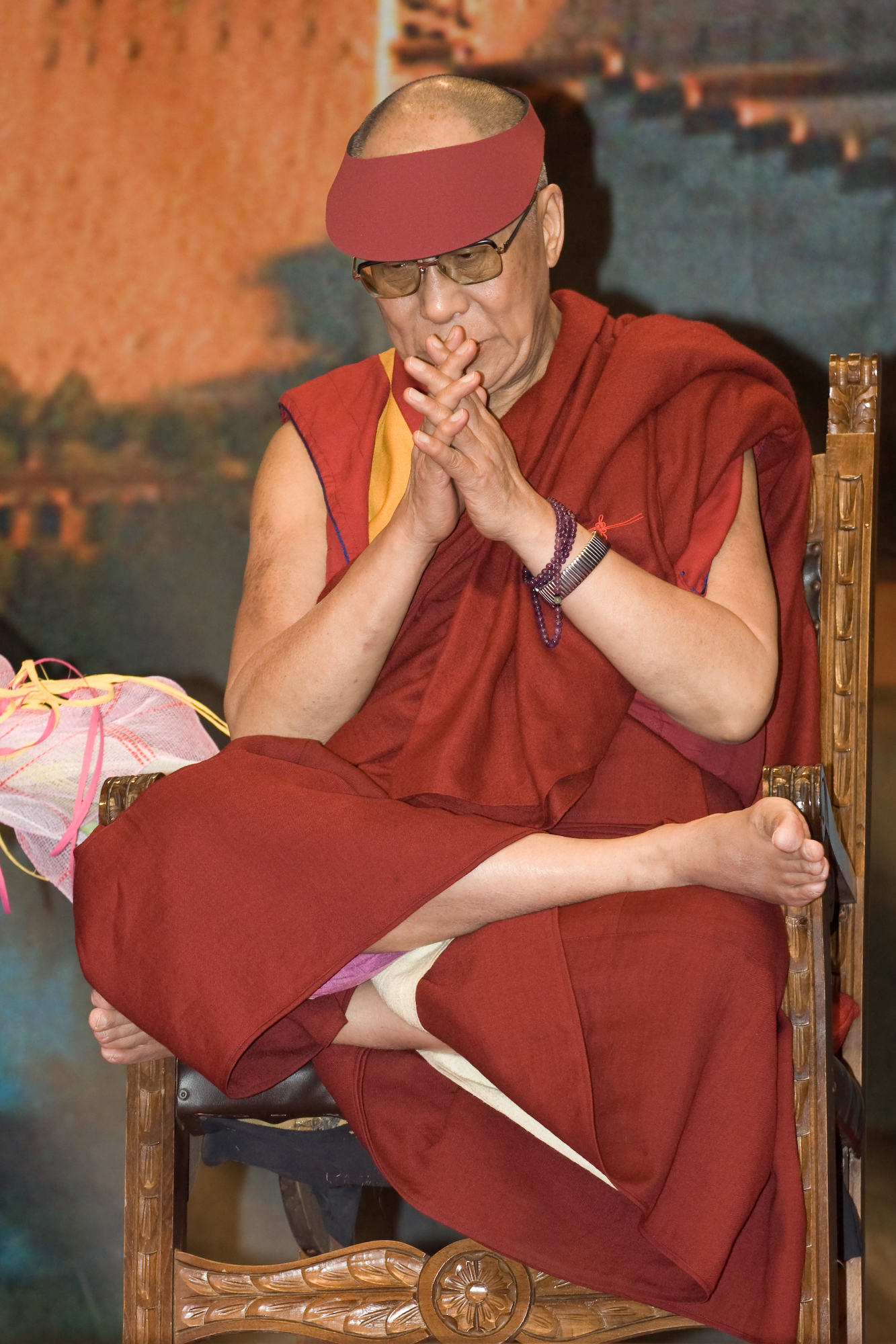 Tenzin Gyatso, the fourteenth and current Dalai Lama, is the leader of the exiled Tibetan government in India. He was awarded the Nobel Peace Prize in 1989. Photographed during his visit in Cologno Monzese MI, Italy, on december 8th, 2007.